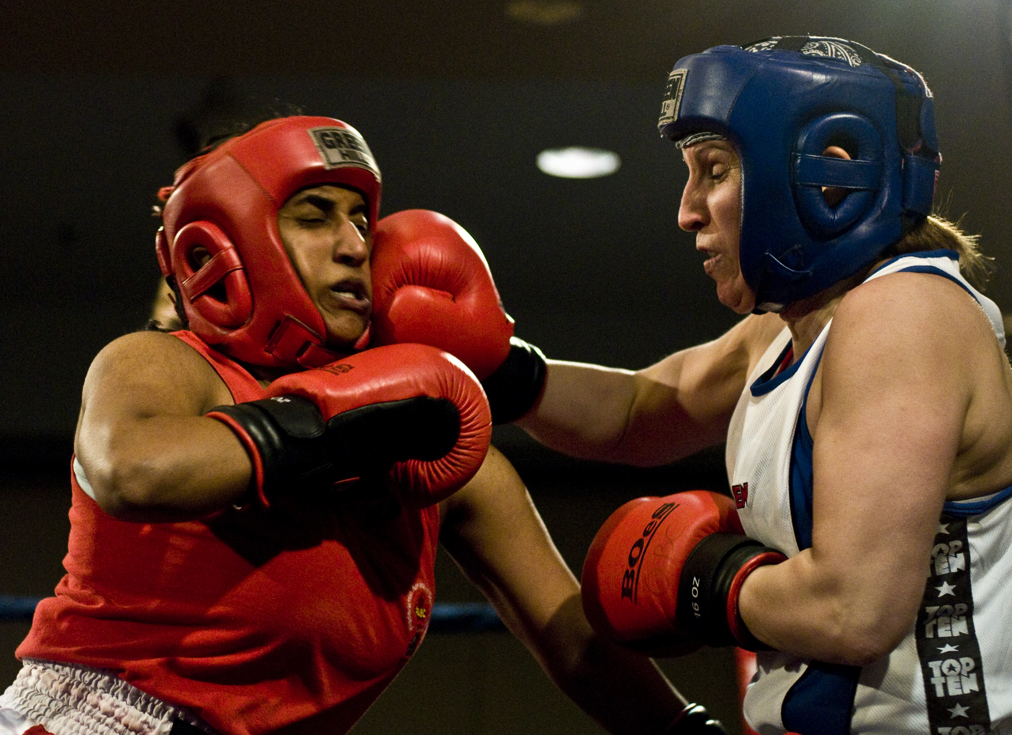 Vasu Sivapalan (Red), a UNB Law student, fights against Liza Papazian in the annual Knocking out Landmines fundraiser on 22 Mar 2010